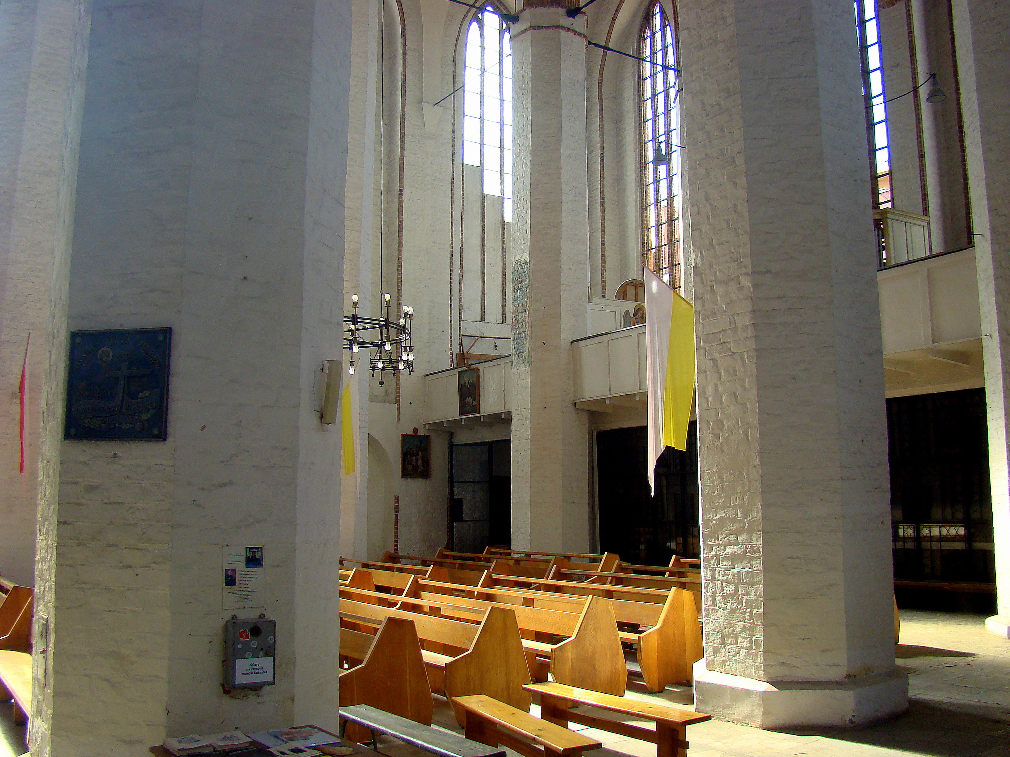 St. John the Evangelist Church, Szczecin, Poland